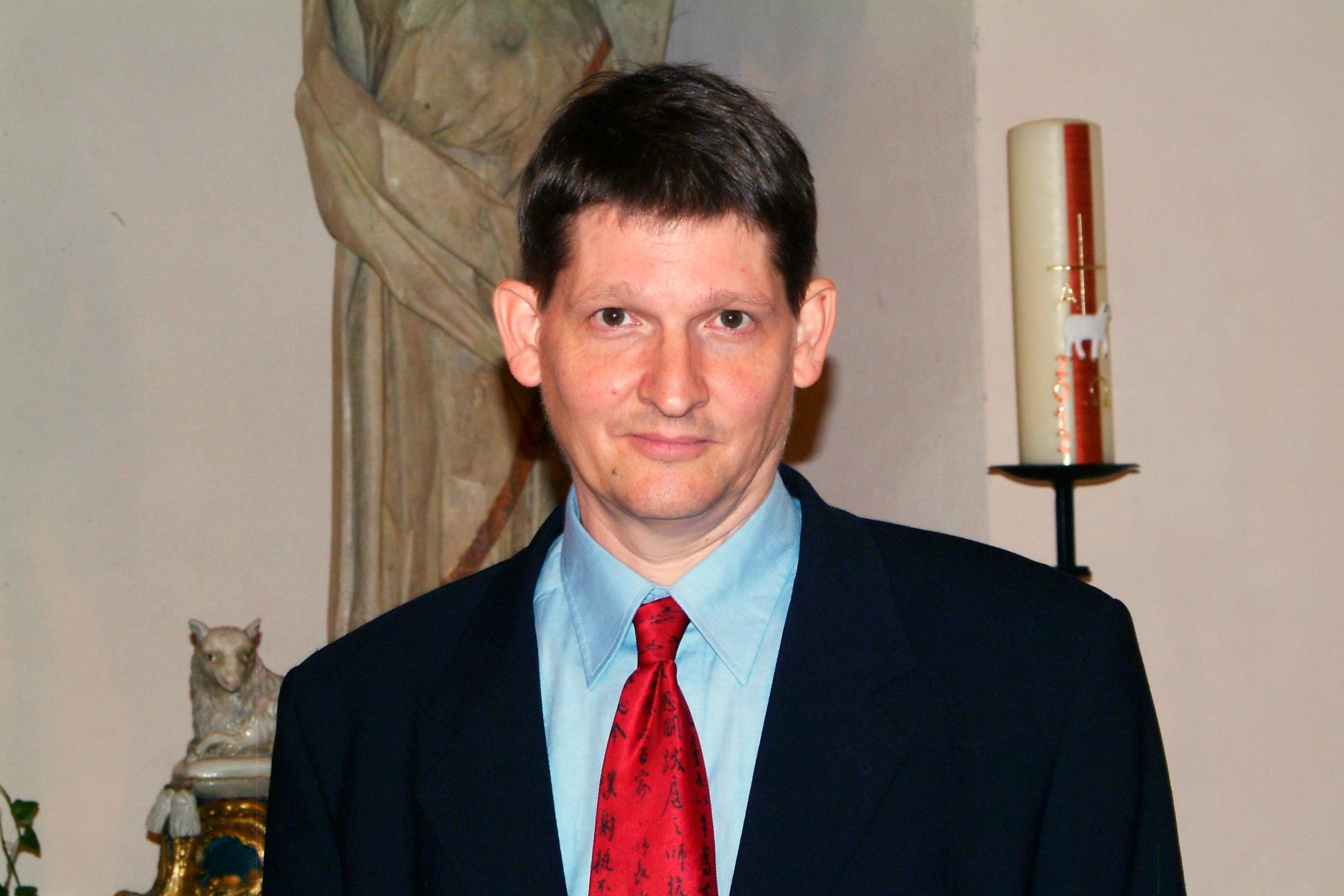 Songs from suffering in the New Town Kircher in Hanover, snapshots from the final event of Hanover in the word mark initially in memory of the Nazi book burning